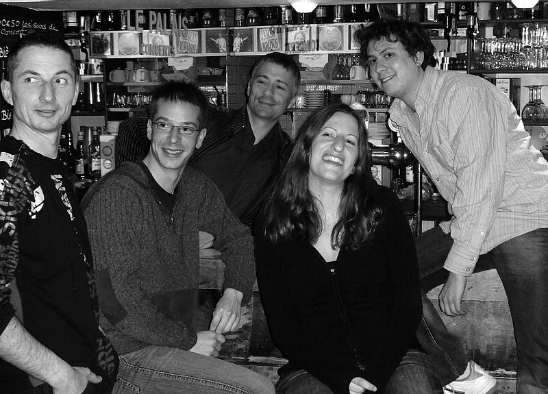 Souffle Court